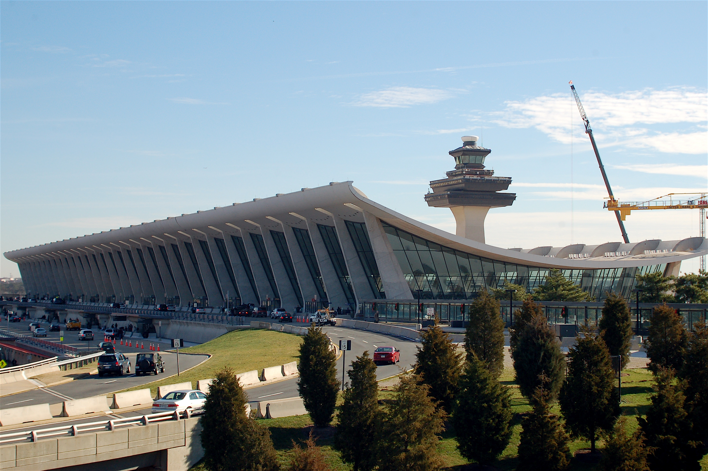 Main terminal of Washington Dulles International Airport (IAD/KIAD), in Fairfax and Loudoun counties in Virginia, United States, designed by Finnish architect Eero Saarinen